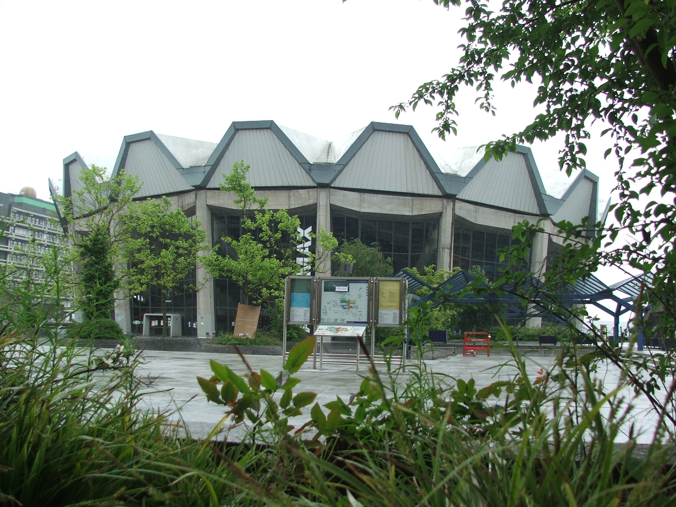 University of Bochum, Audimax Own Picture, 2006, GFDL